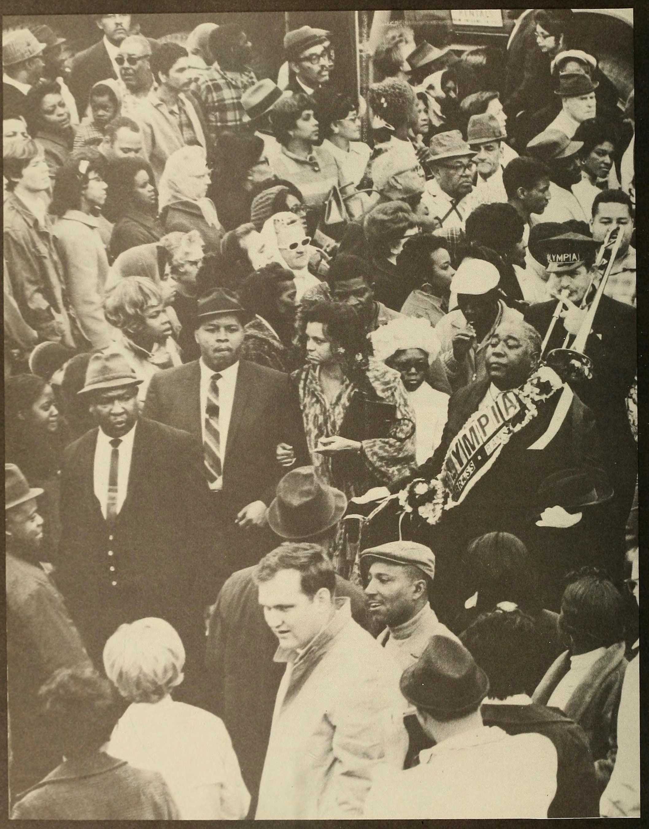 "New Orleans Funeral" photo essay in 1969 Tulane University "Jambalaya", photos by Michael Smith and John Messina.